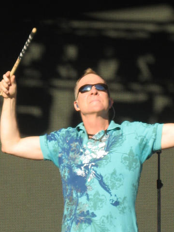 Fred Schneider from The B-52's @LoveBox festival in London, July 22nd 2007